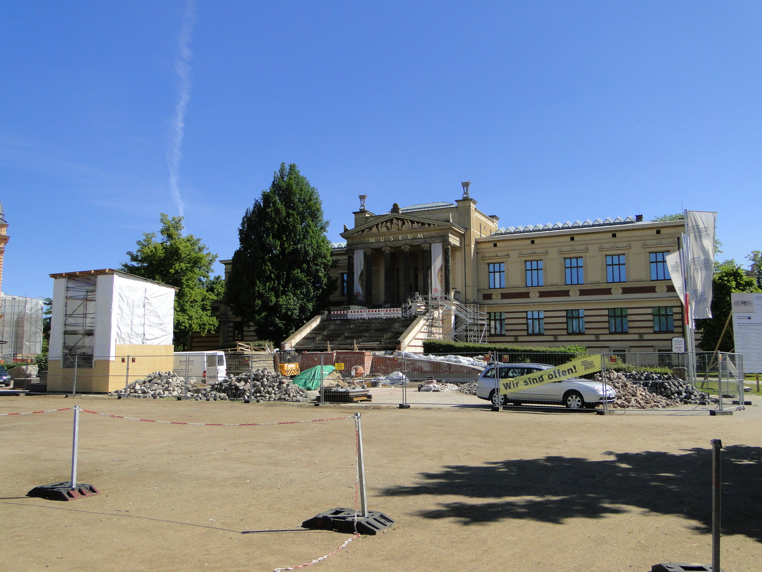 Place Alter Garten and State Museum in Schwerin, Mecklenburg-Vorpommern, Germany